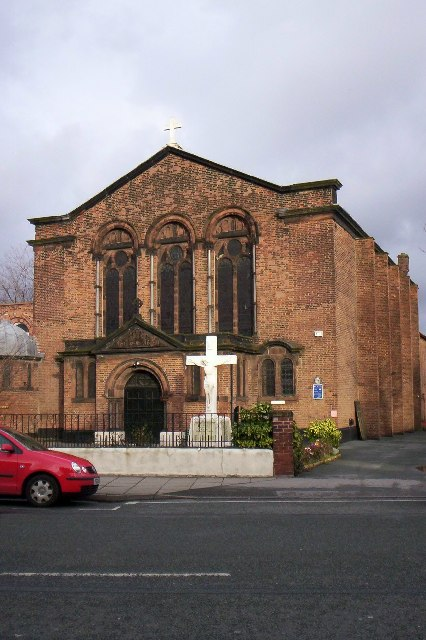 Roman Catholic church of St Alban, Bewsey Road, Warrington, seen from the southwest